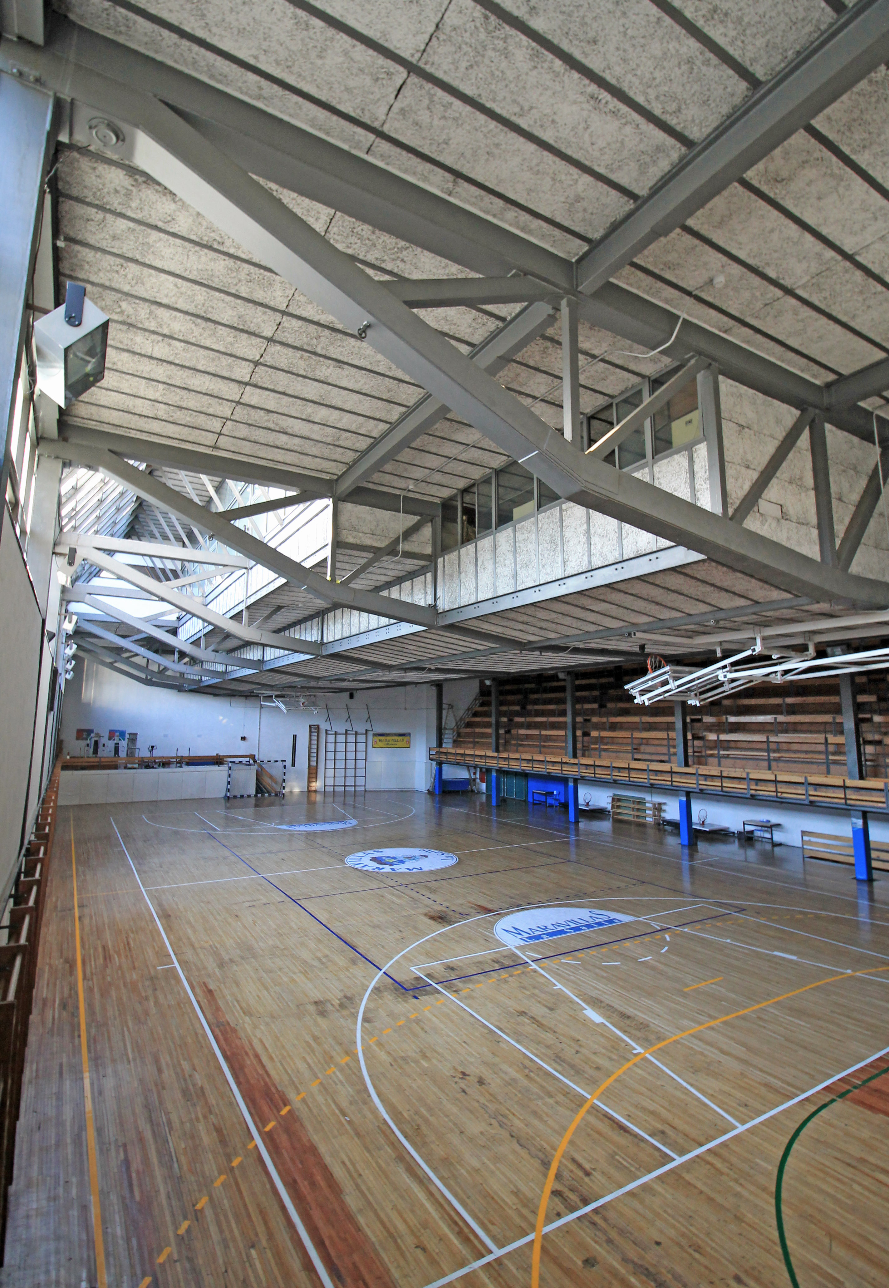 The gymnasium of Colegio Maravillas (a school) in Madrid (Spain).